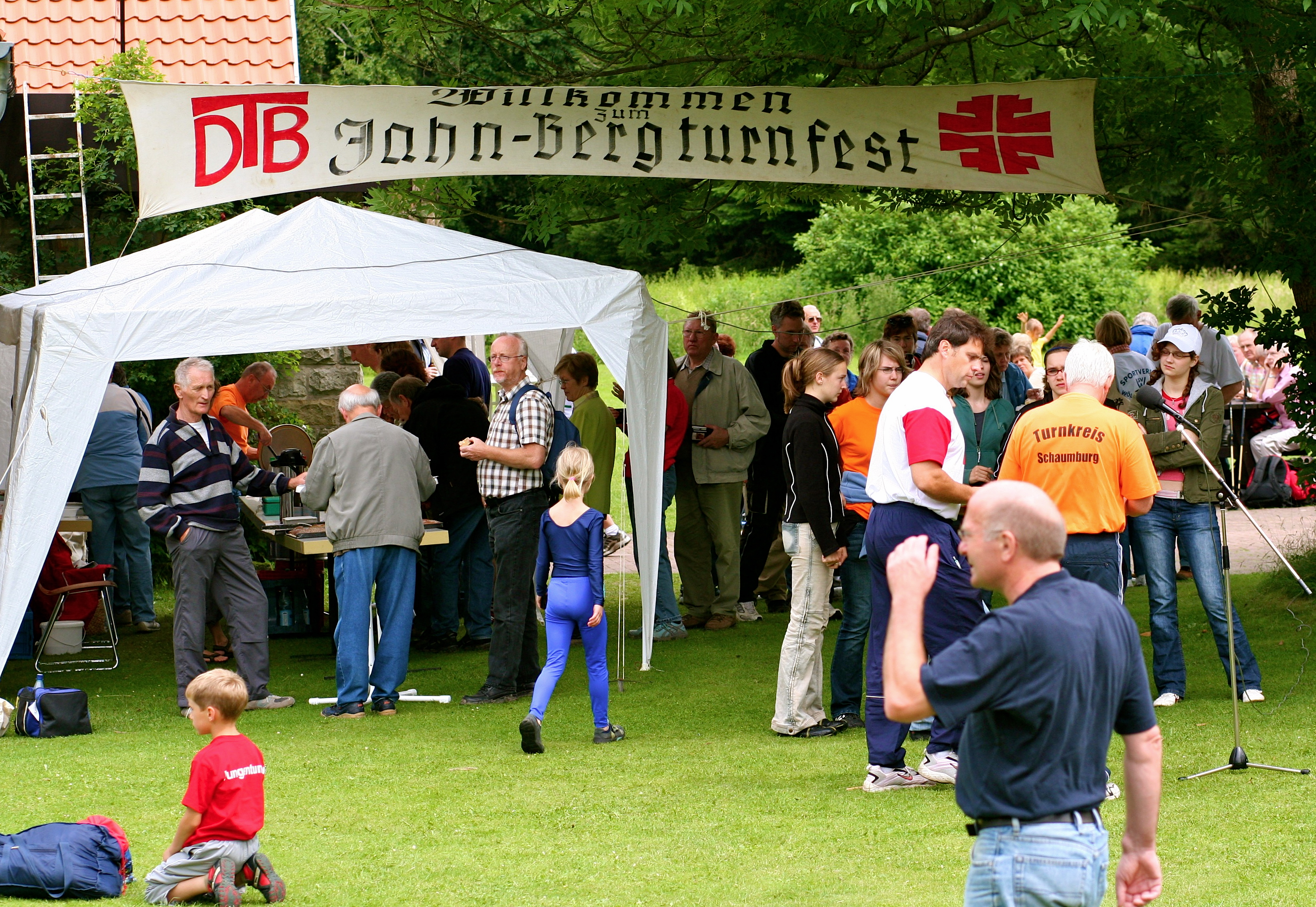 Scenery at the beginning of Jahn Bergturnfest 2007 at Bückeberg, Lower Saxony, Germany